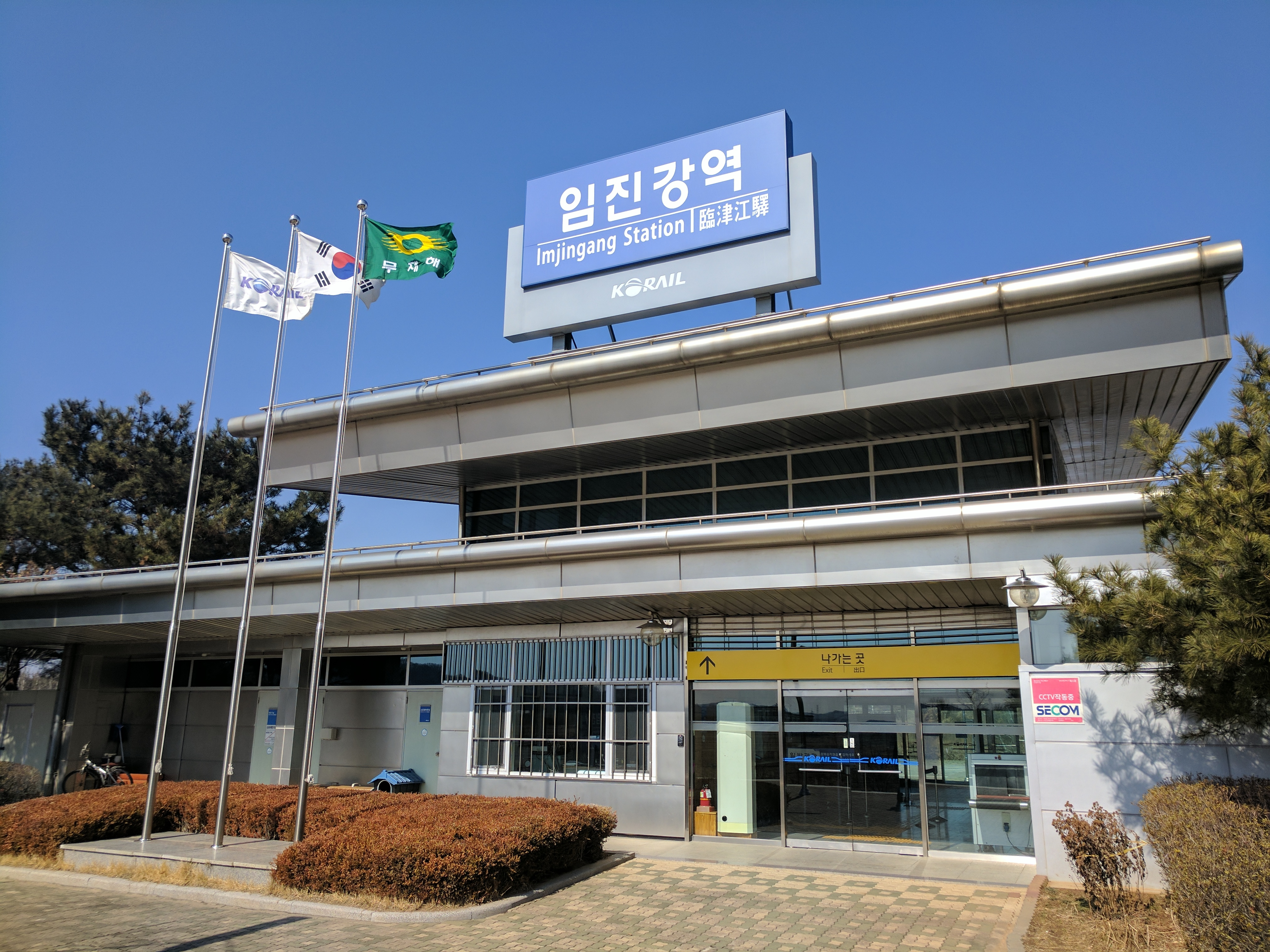 Imjingang station on the Gyeongui Line north of Seoul, Korea